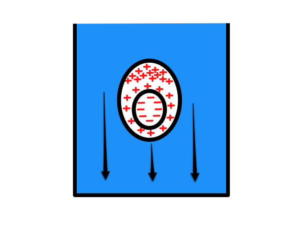 Add caption here